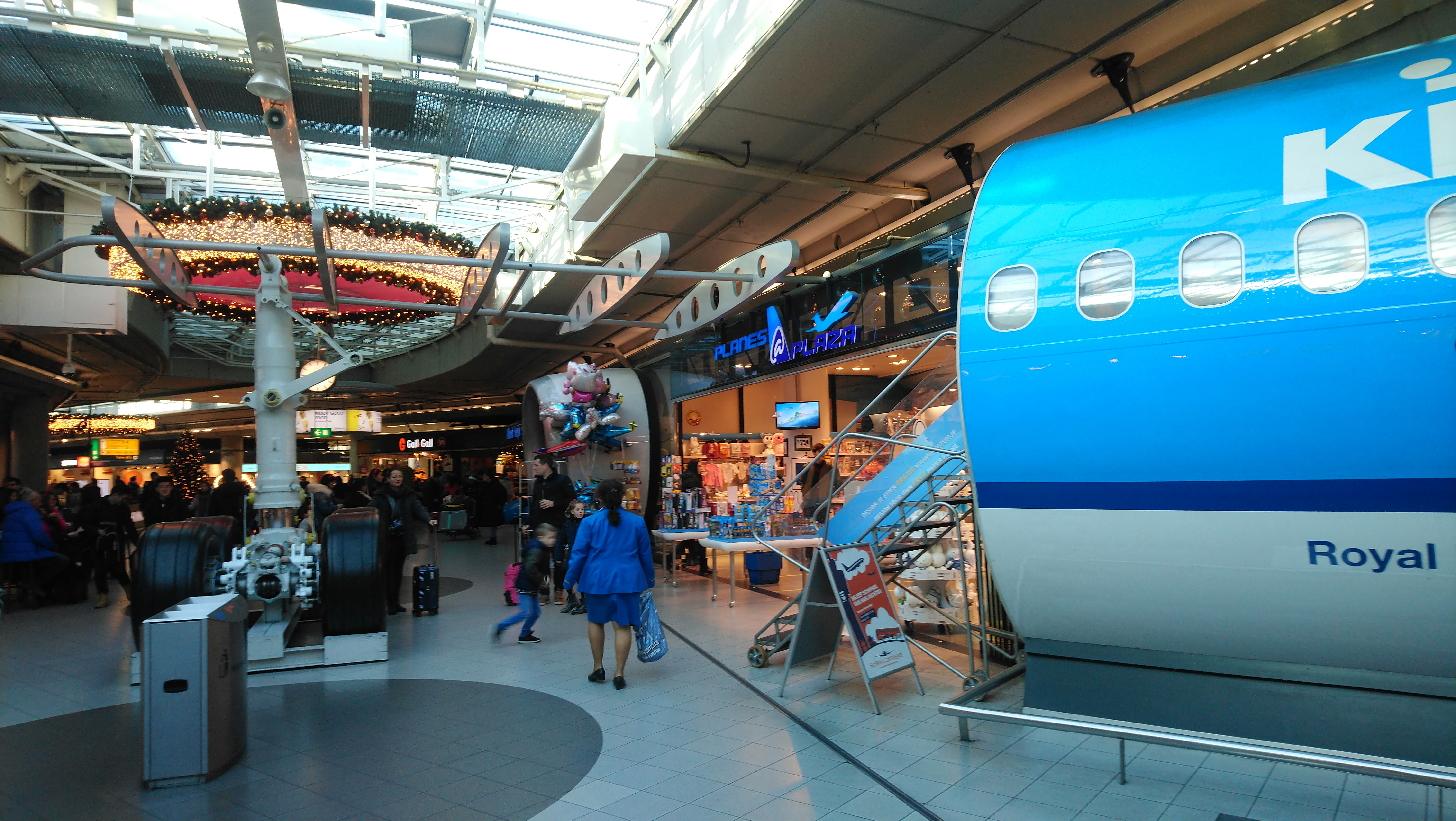 Shopping area of the Schipol Airport Station in Amsterdam